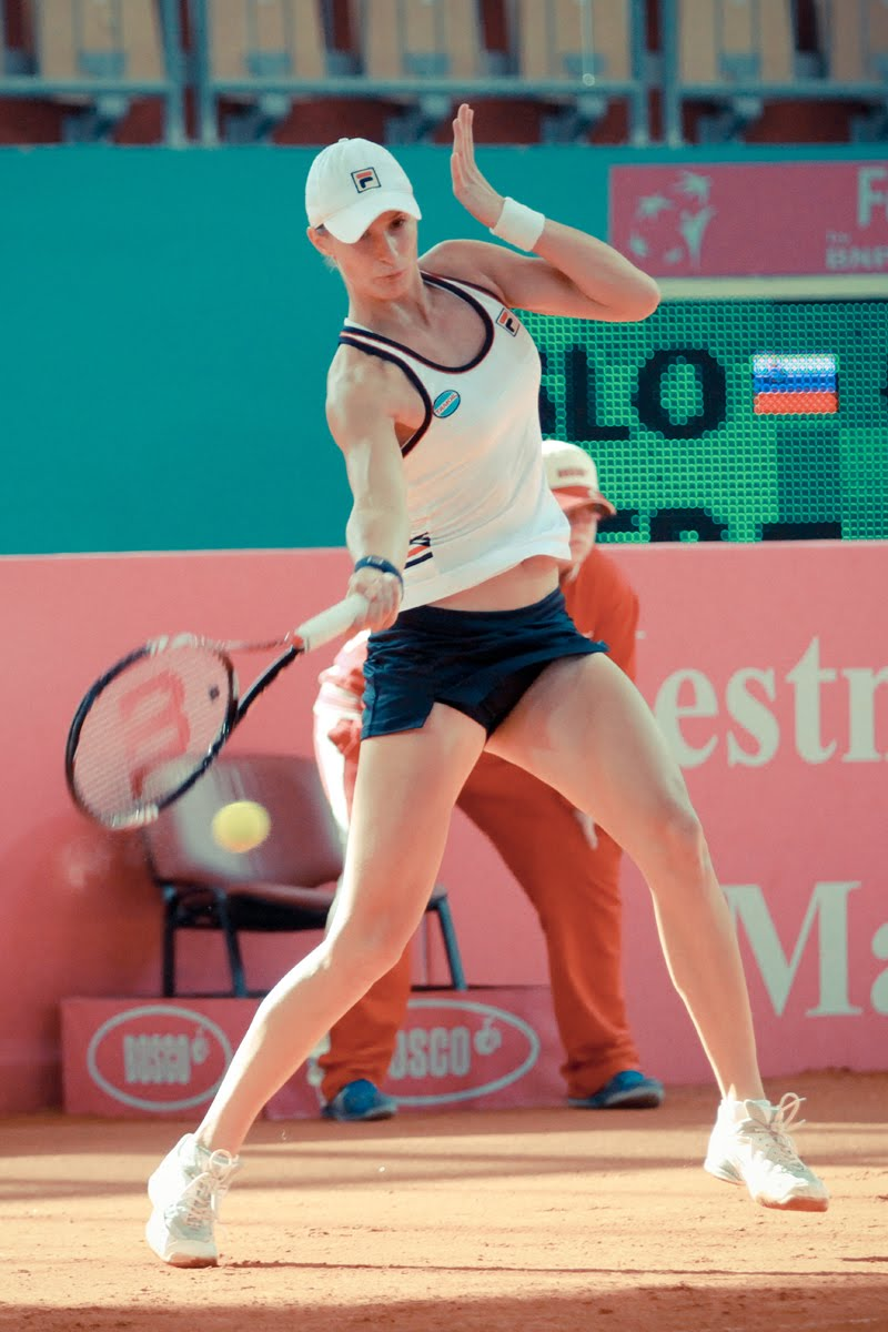 Polona Hercog at the Fed Cup vs Germany in Maribor